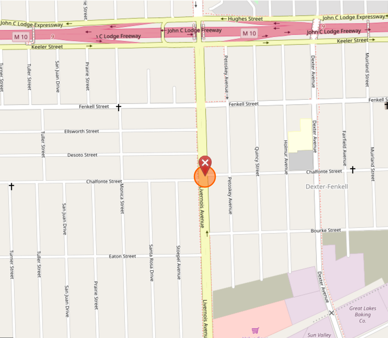 This map of Détroit (Michigan) was created from OpenStreetMap project data, collected by the community. This map may be incomplete, and may contain errors. Don't rely solely on it for navigation.